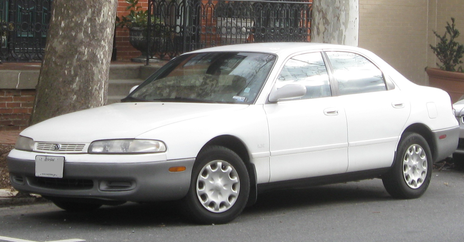 1993-1995 Mazda 626 photographed in Annapolis, Maryland, USA.